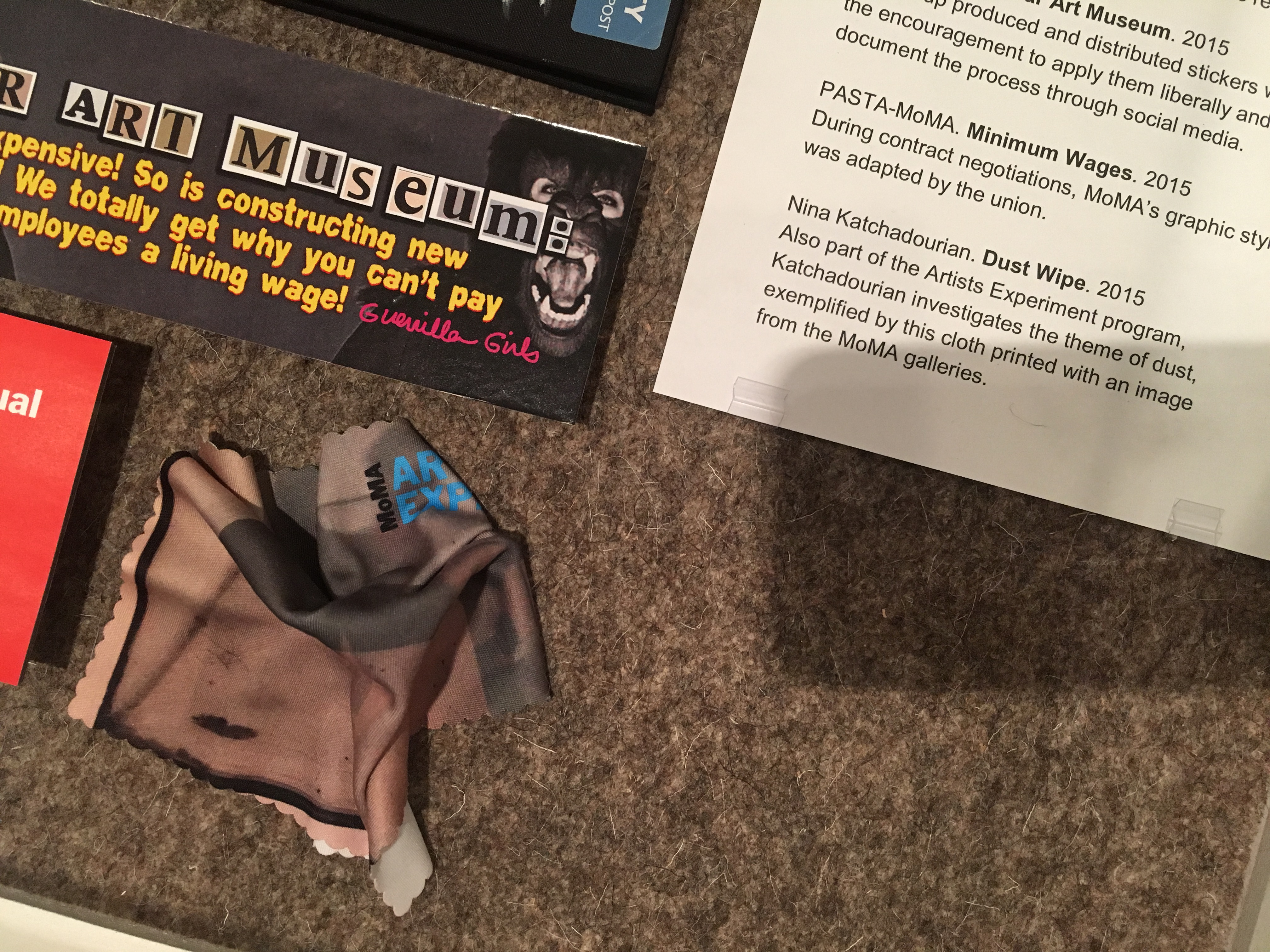 A crumpled MoMA Artists Experiment-branded microfiber dust wipe and its associated art label, displayed in a vitrine as part of the 2015 exhibition Messing With MoMA: Critical Interventions at the Museum of Modern Art.